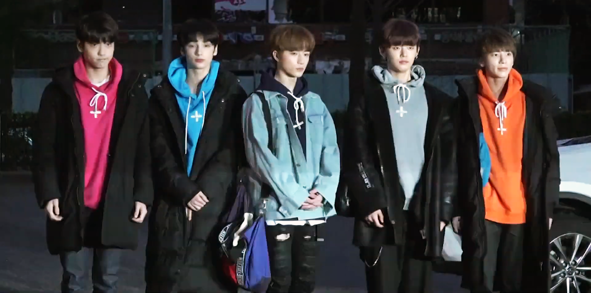 TXT at arriving at a rehearsal for KBS' Music Bank on March 8, 2019